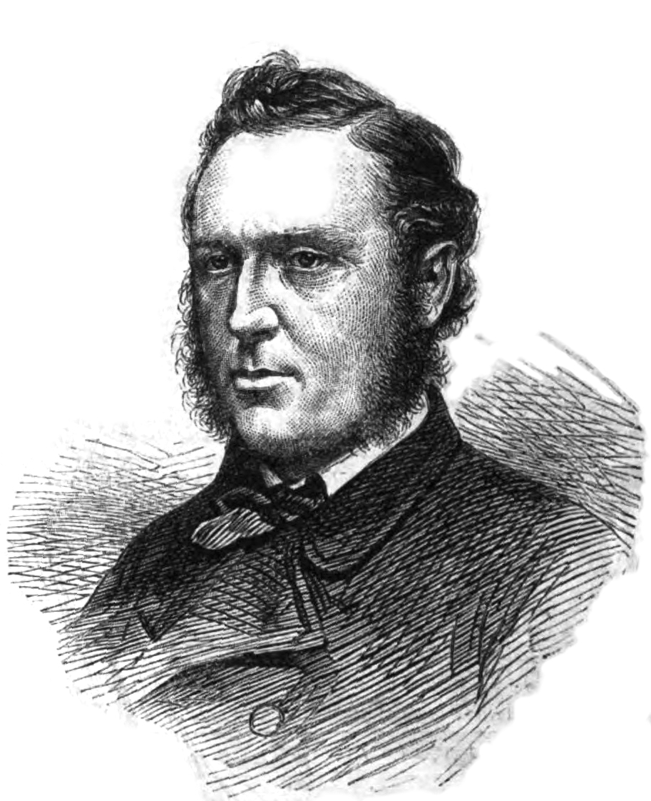 Portrait of James Anderson (1824–1893), captain of SS Great Eastern.